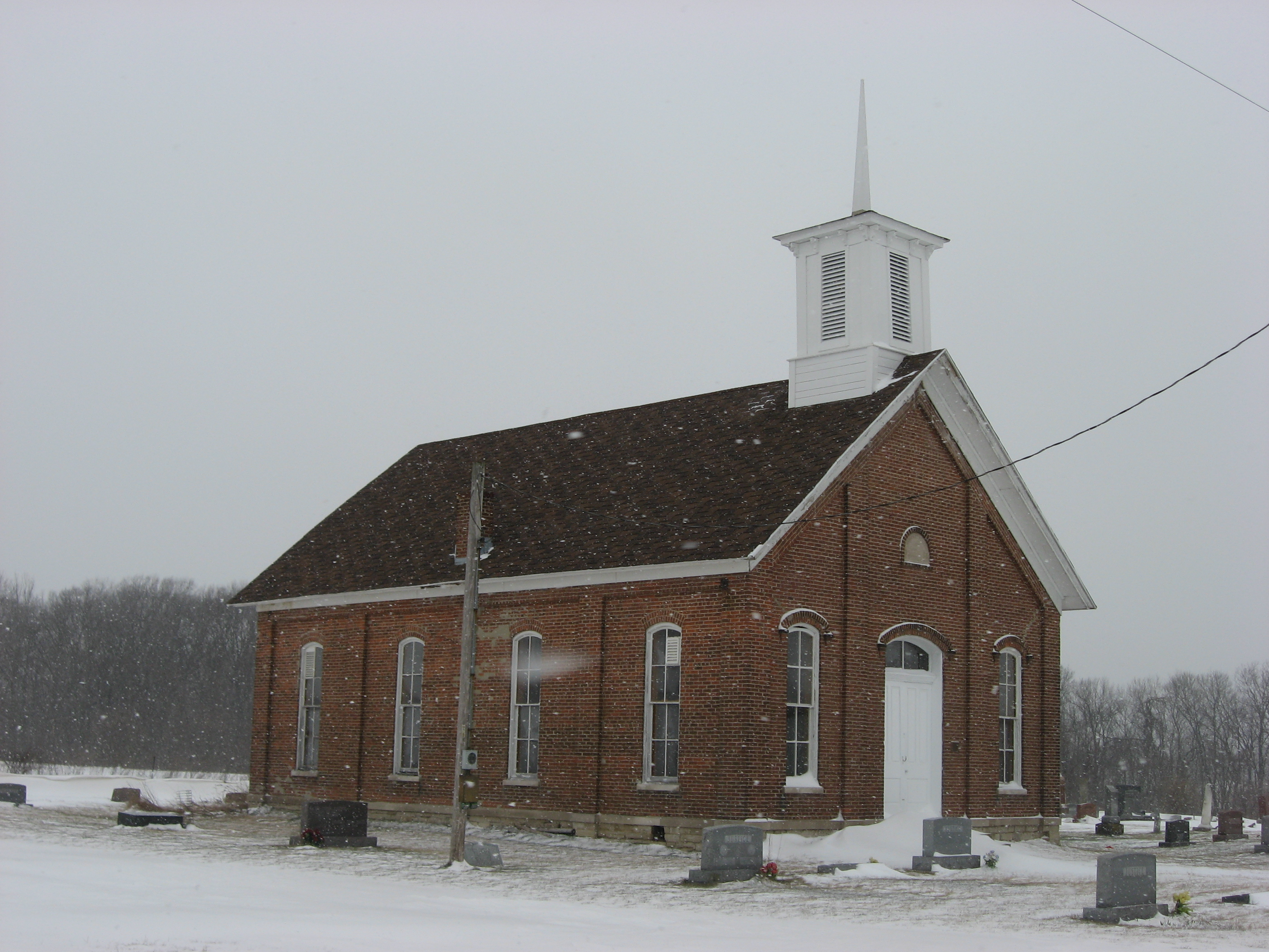 Front and southern side of the Pleasant Hill Church, located along the western side of County Road 675W north of its junction with County Road 400S west of Logansport in Clinton Township, Cass County, Indiana, United States. Built in 1875, it is listed on the National Register of Historic Places.